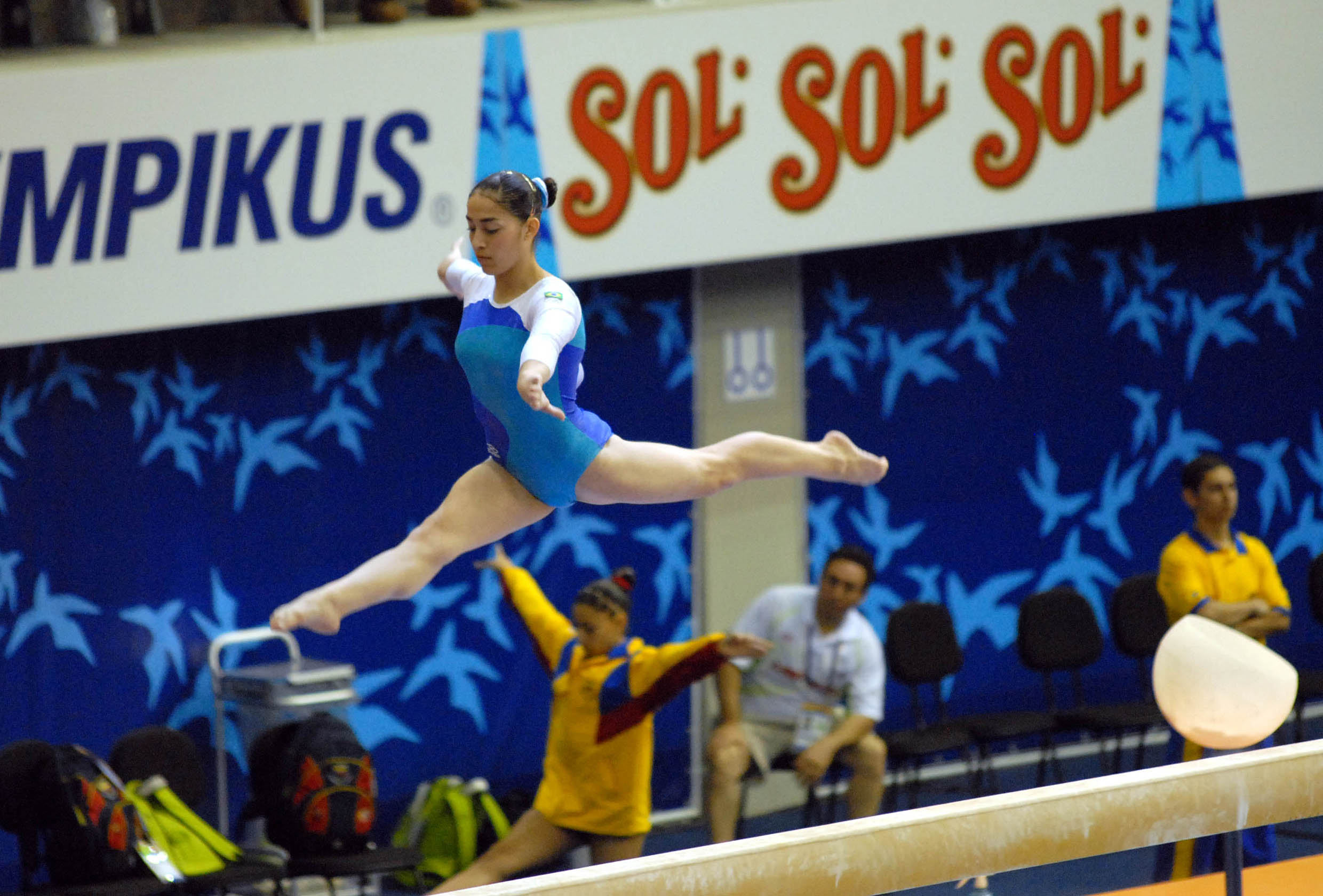 Daniele Hypólito on the Balance Beam at the 2007 Pan American Games.